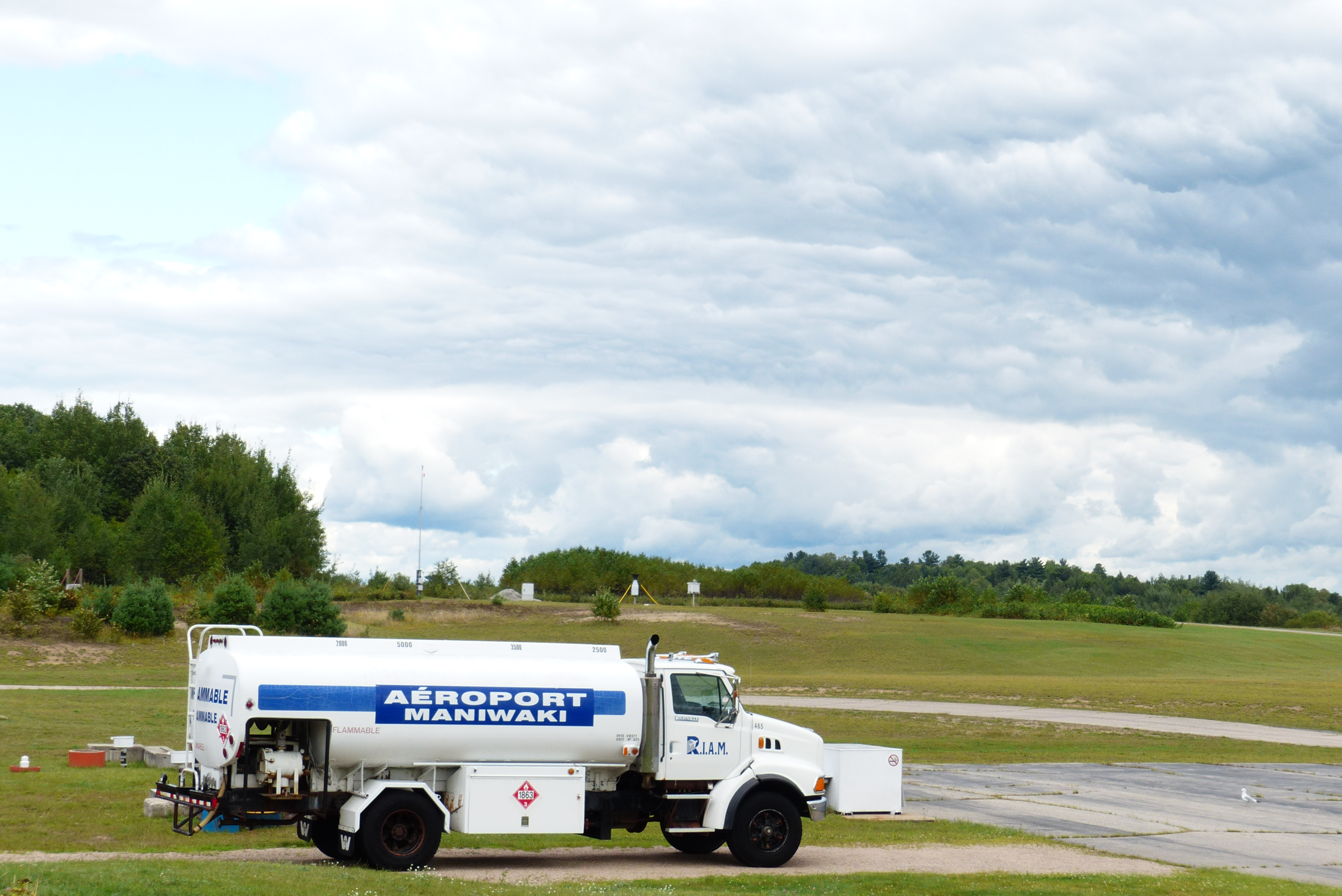 The threshold of runway 21 is seen from the terminal building apron at Maniwaki Airport, Quebec, Canada.